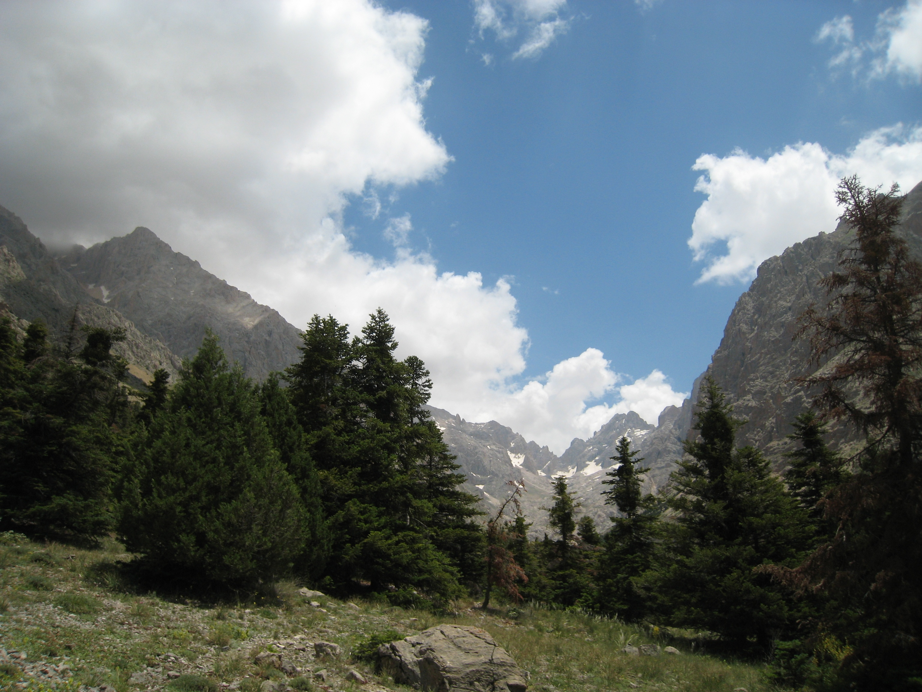 Cilician Fir Abies cilicica forest with scattered Juniperus foetidissima, Aladağlar Mountains, Turkey